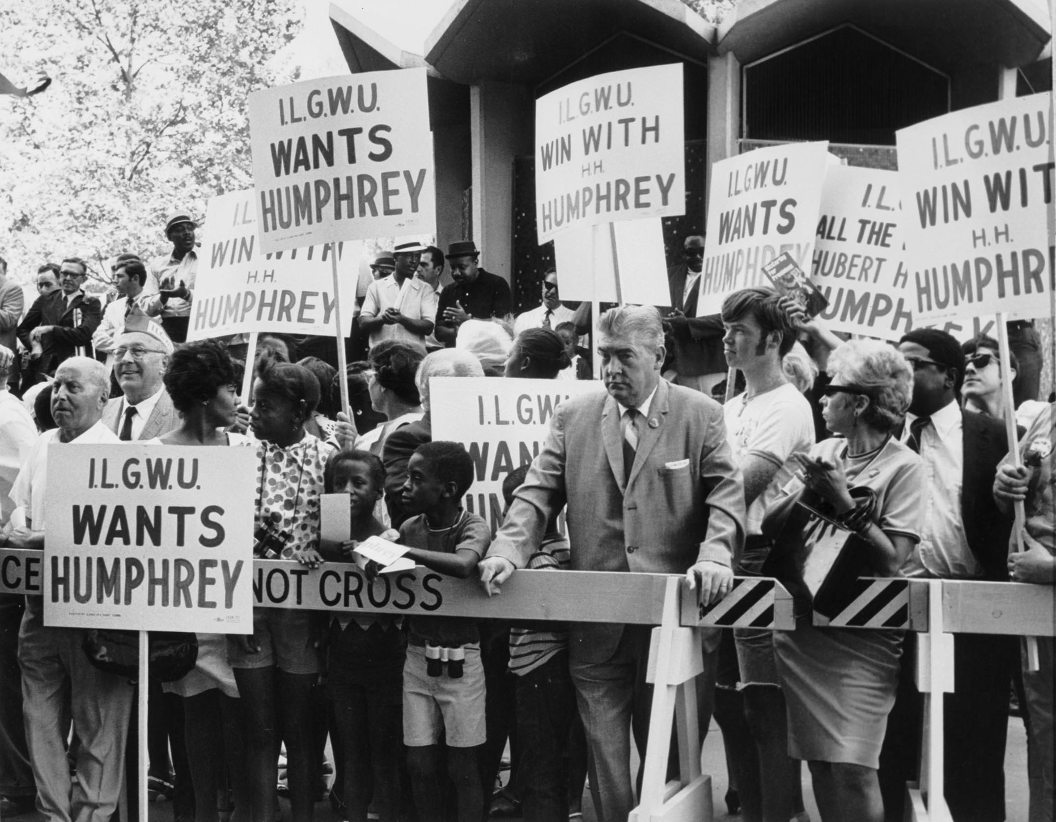 Title: Rally for Hubert H. Humphrey during August 15, 1968 presidential campaign with placards reading "ILGWU wants Humphrey" and "ILGWU Win with Humphrey" Date: 1968 Photographer: Unknown Photo ID: 5780PB13F17E Collection: International Ladies Garment Workers Union Photographs (1885-1985) Repository: The Kheel Center for Labor-Management Documentation and Archives in the ILR School at Cornell University is the Catherwood Library unit that collects, preserves, and makes accessible special collections documenting the history of the workplace and labor relations. Notes: No additional information available. Copyright: The copyright status of this image is unknown. It may also be subject to third party rights of privacy or publicity. Images are being made available for purposes of private study, scholarship, and research. The Kheel Center would like to learn more about this image and hear from any copyright owners who are not properly identified so that we may make the necessary corrections. Tags: Kheel Center for Labor-Management Documentation and Archives,Cornell University Library,Crowds, Placards, Public Figures